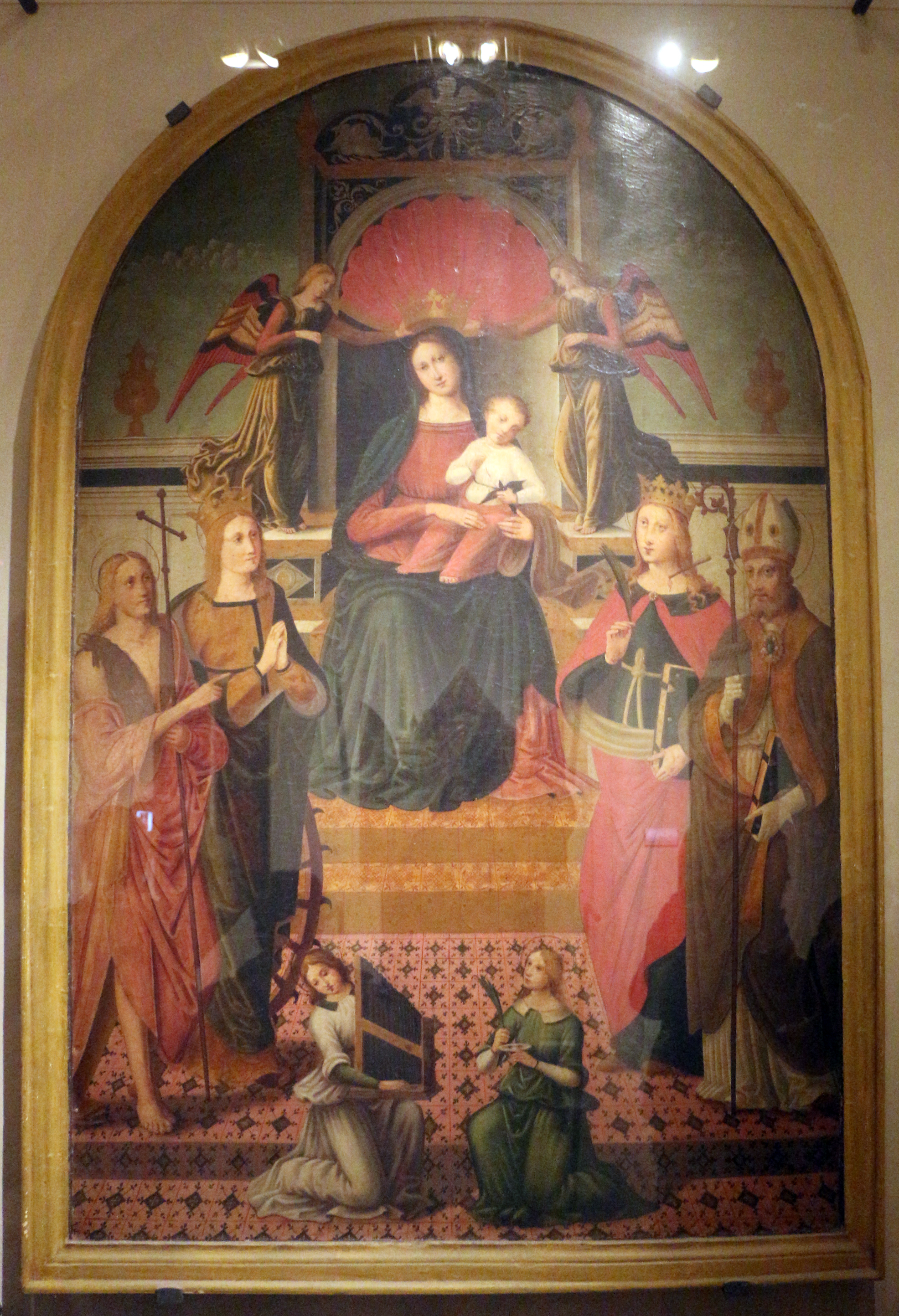 Museo del Bigallo (Florence)